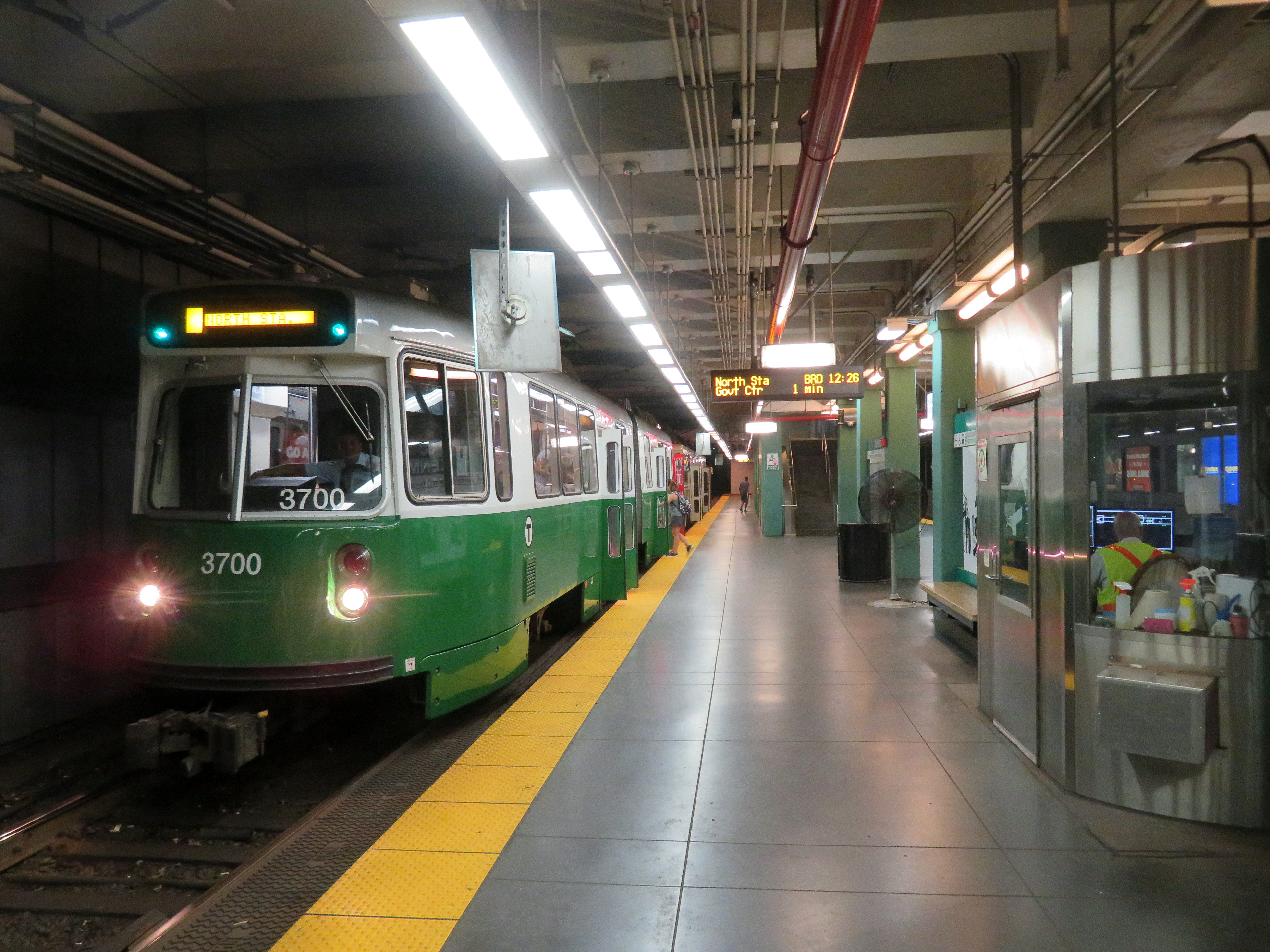 An inbound train at Kenmore station in July 2019